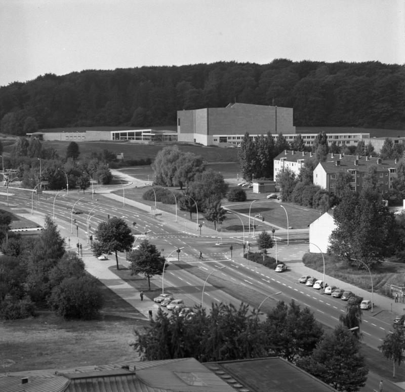 Wolfsburg Neues Theater